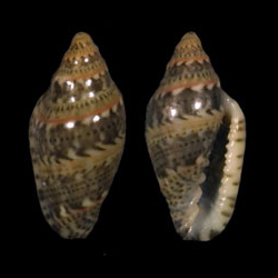 Species: Marginella spinacea Gofas & Fernandes, 1988 Specimen: Luis Ferreira collection data: Espraínha, S. Tomé Isl. 11/1988 by diving at 3m L 6.8mm